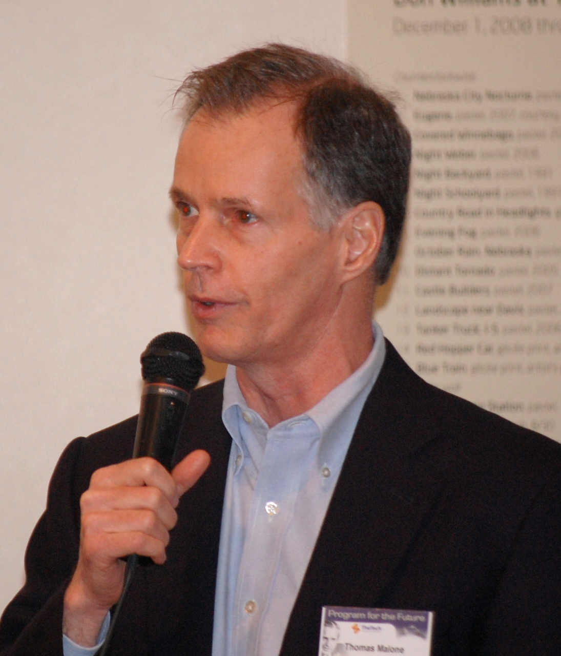 Dr. Thomas Malone